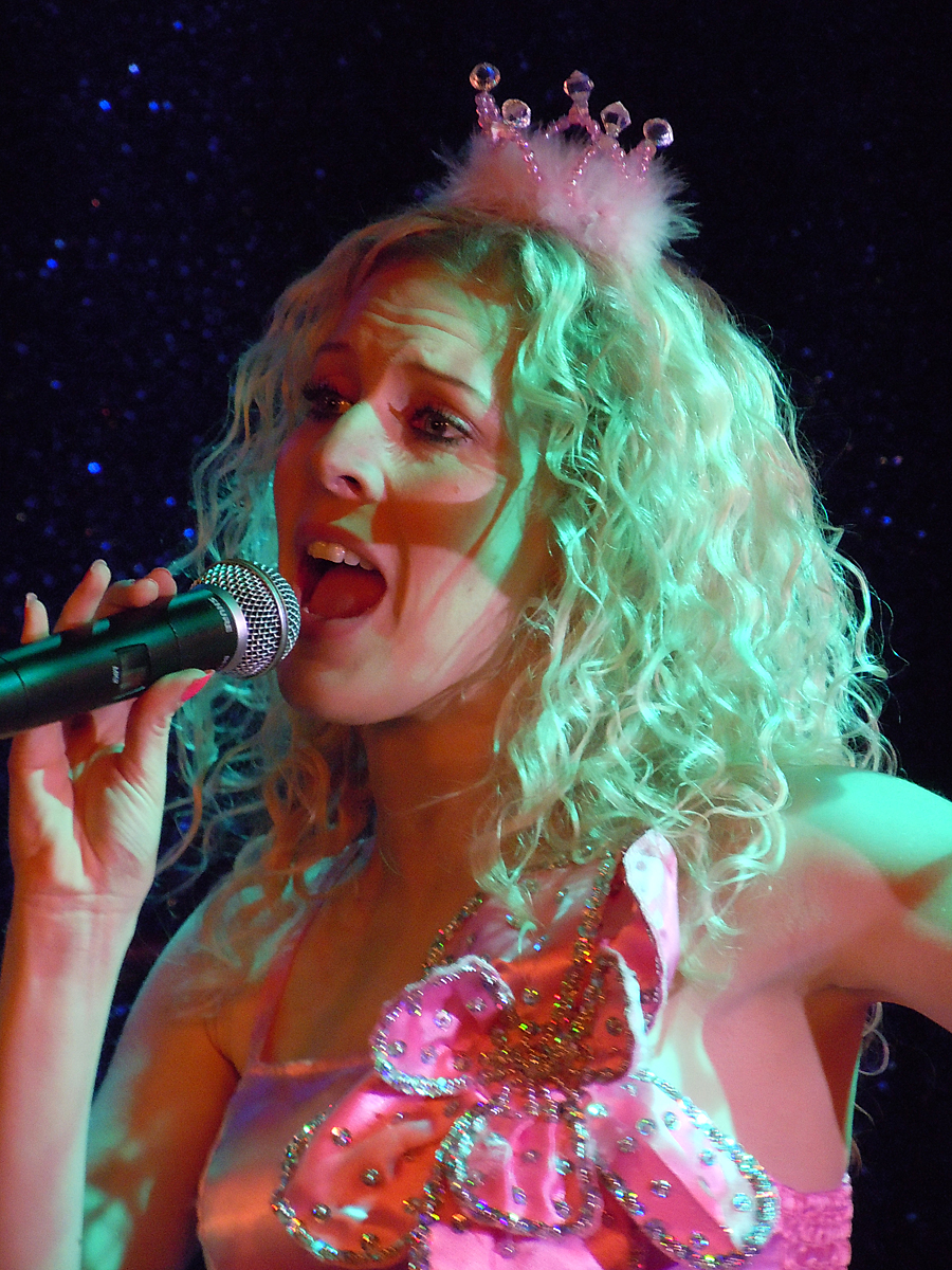 Sandra Dahlberg, Swedish singer, singing onboard M/S Birka Paradise, 3.november 2010.